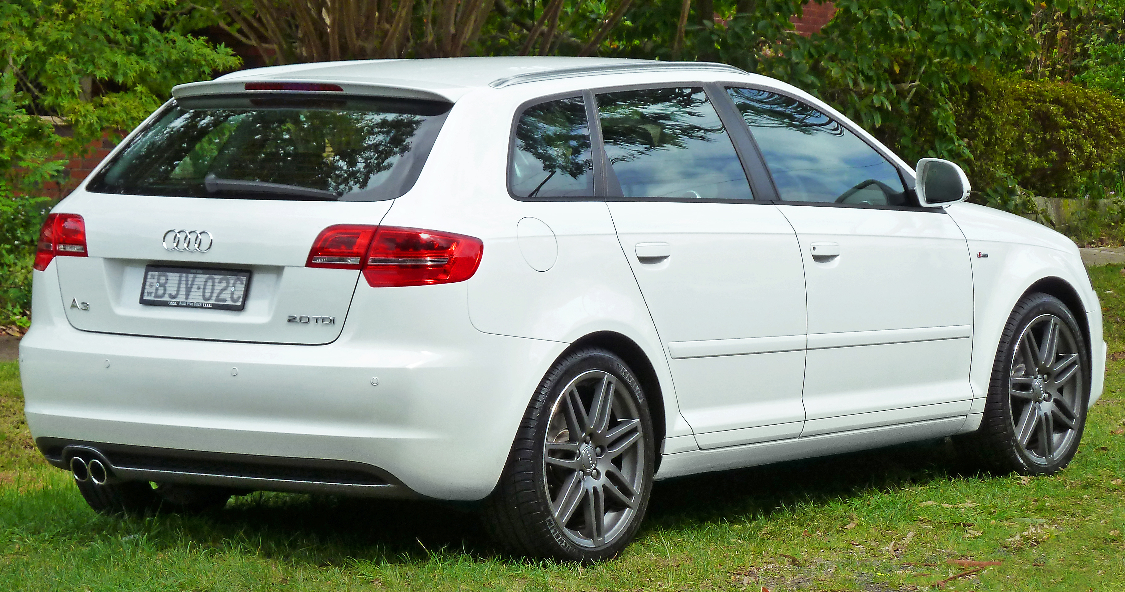 2009 Audi A3 (8PA) 2.0 TDI 5-door Sportback. Photographed in Lindfield, New South Wales, Australia.